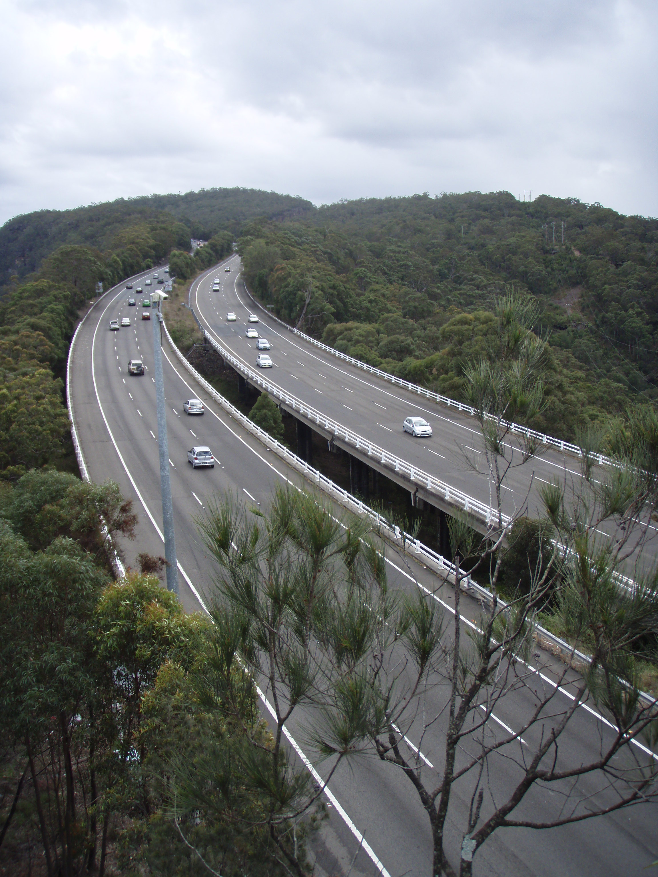 Jolls Bridge looking north. The bridge was built in the late 1960s as part of the Sydney to Newcastle Expressway - commonly referred to as the F3.